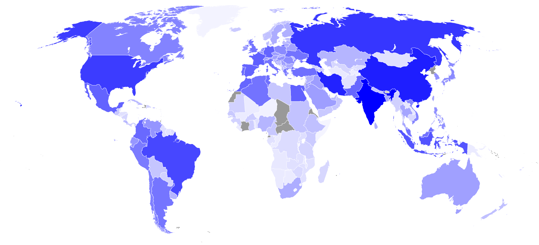 This map was created with GunnMapGunnMap was created by Arthur Gunn and is available, free, at and attribute by linking to Based off data available at